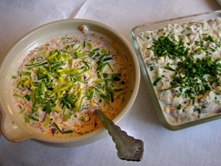 Easter dinner, gubbmixture and Annas mixture! Good tasting? Oh yesss :-)